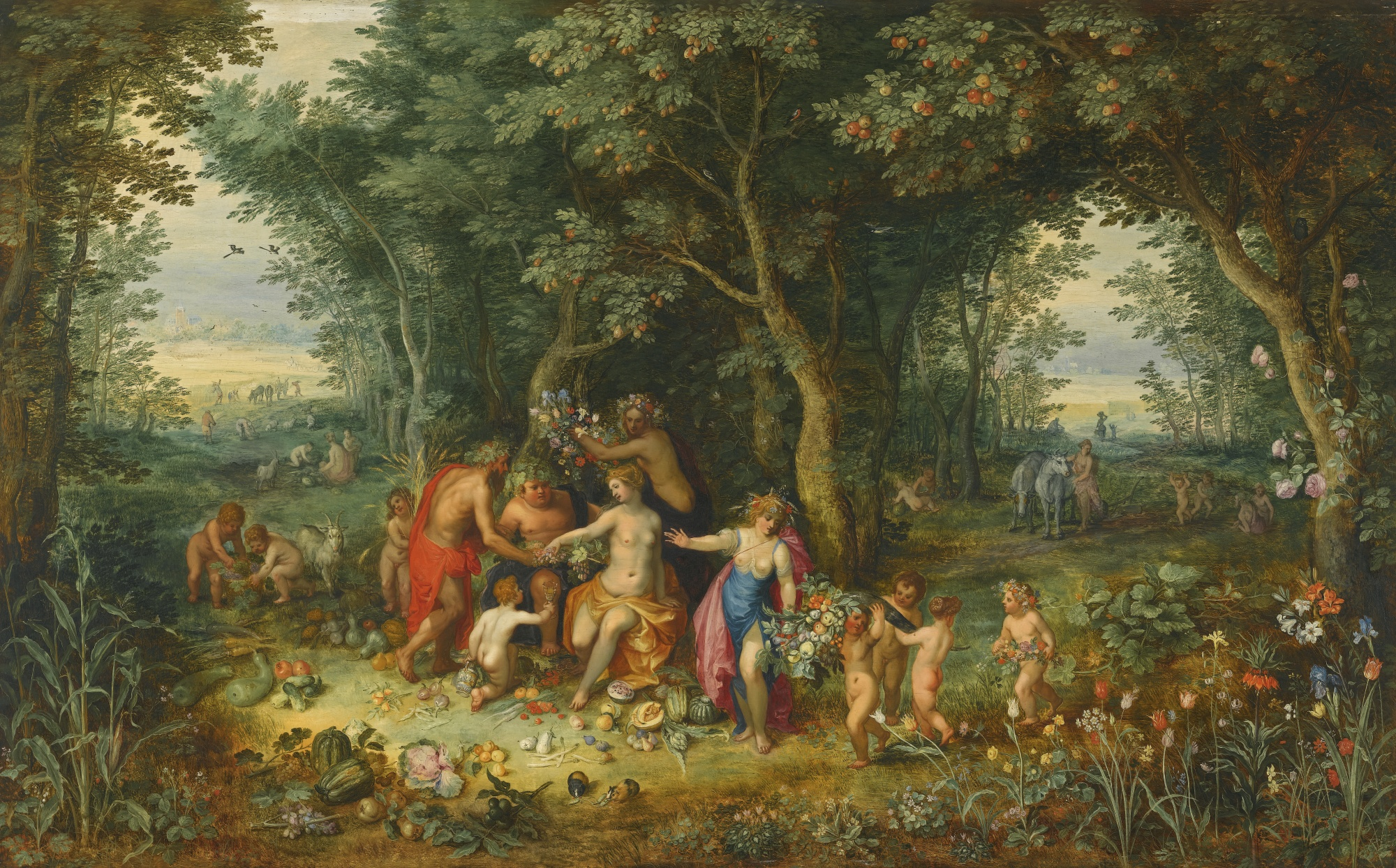 Venus, Ceres and Bacchus